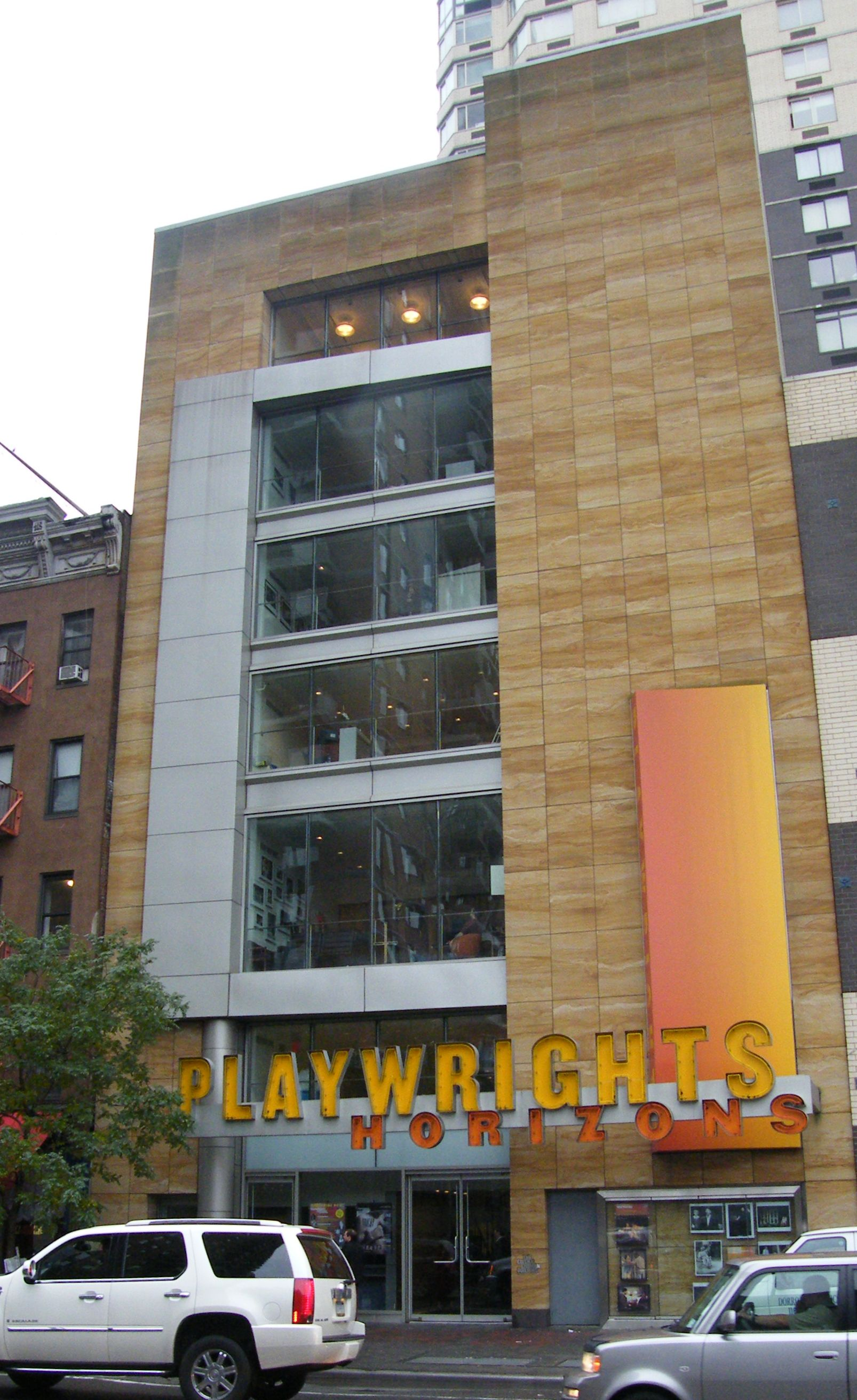 Playwrights Horizon Theatre in New York City